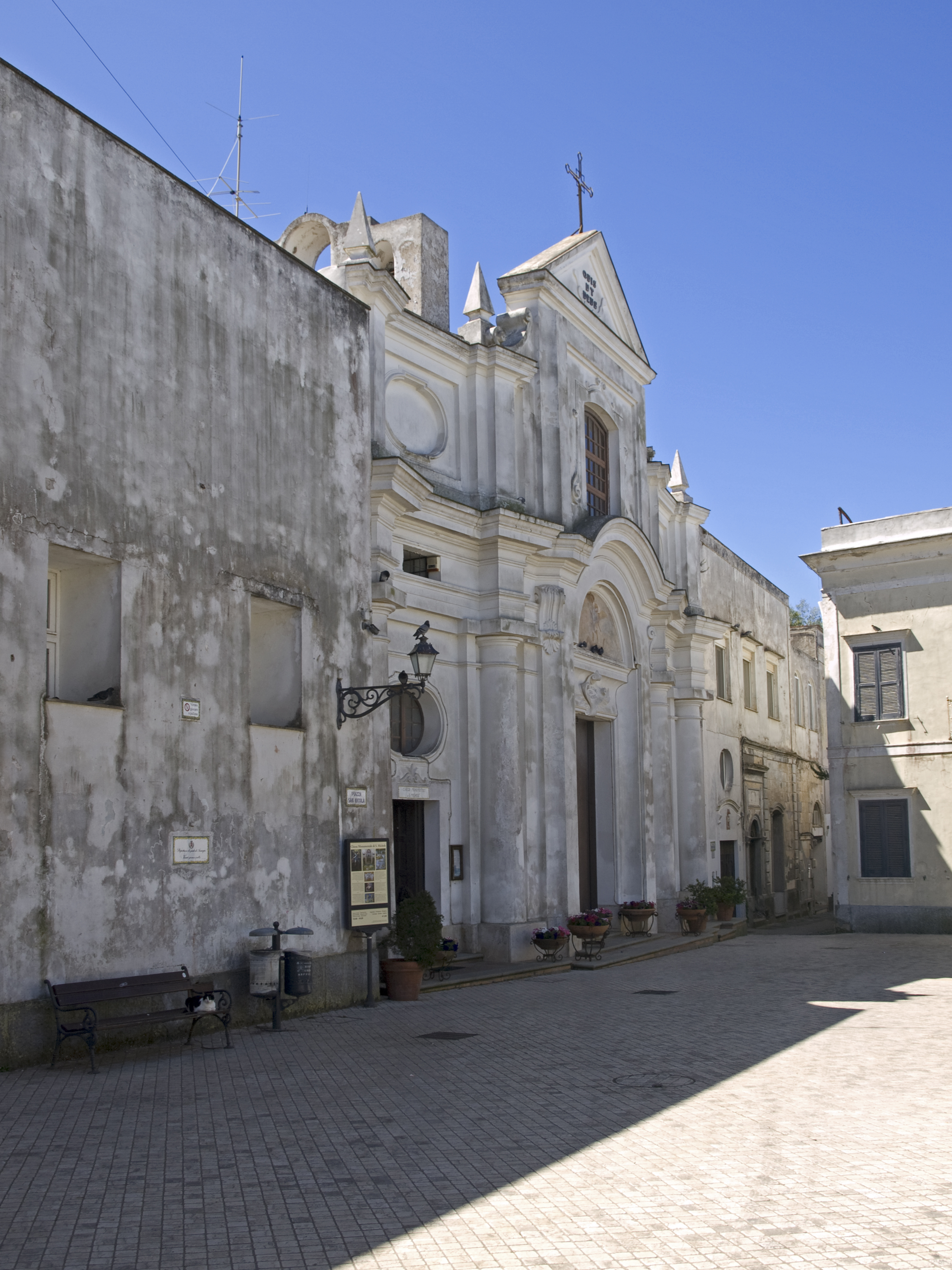 Church of San Michele Archangelo, Anacapri